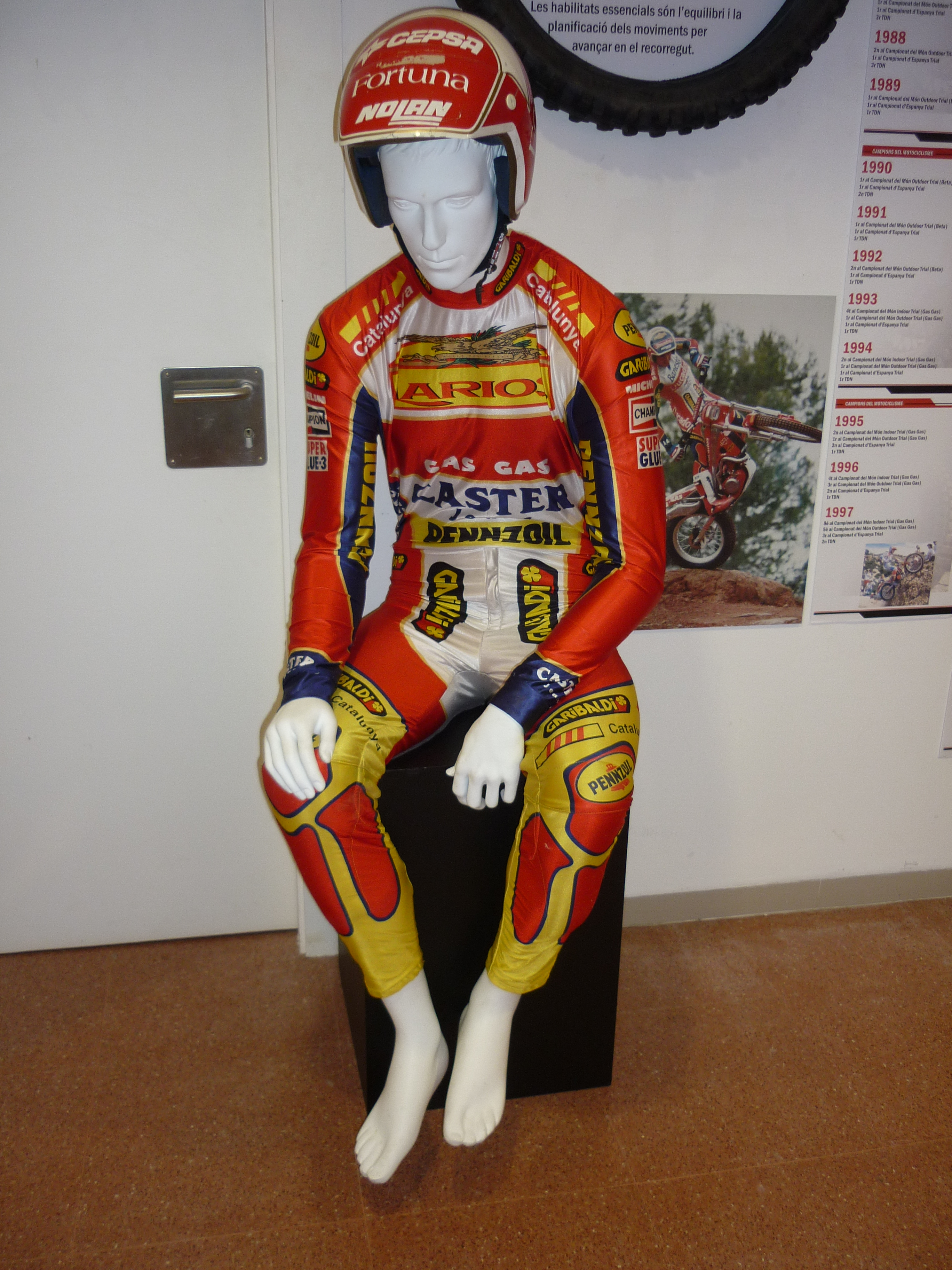 The equipment that wore Jordi Tarrés nearly 1996 season